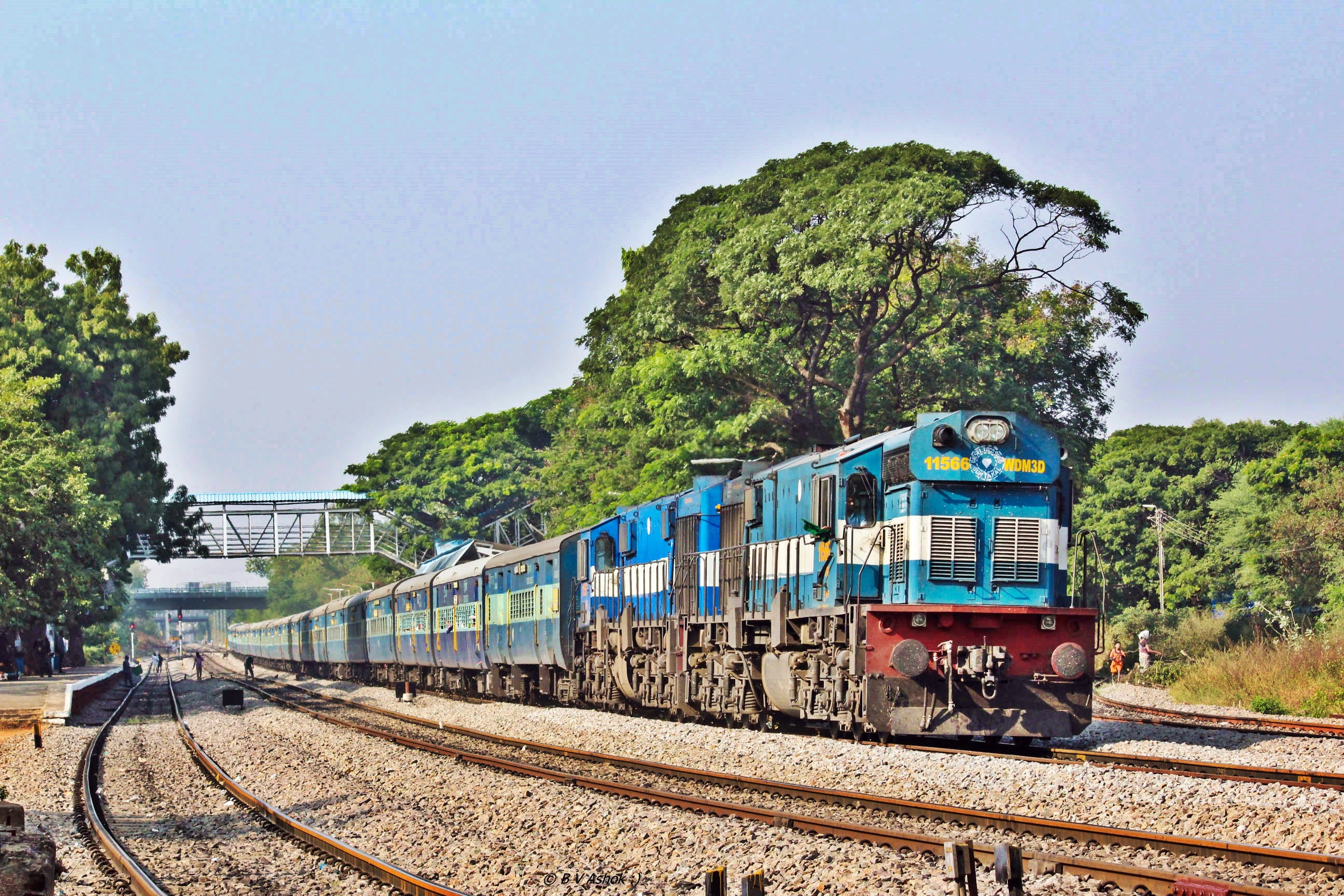 GTL WDM-3D 11566 leads the twin charge for 17057 Mumbai CST - Secunderabad Devagiri Expess